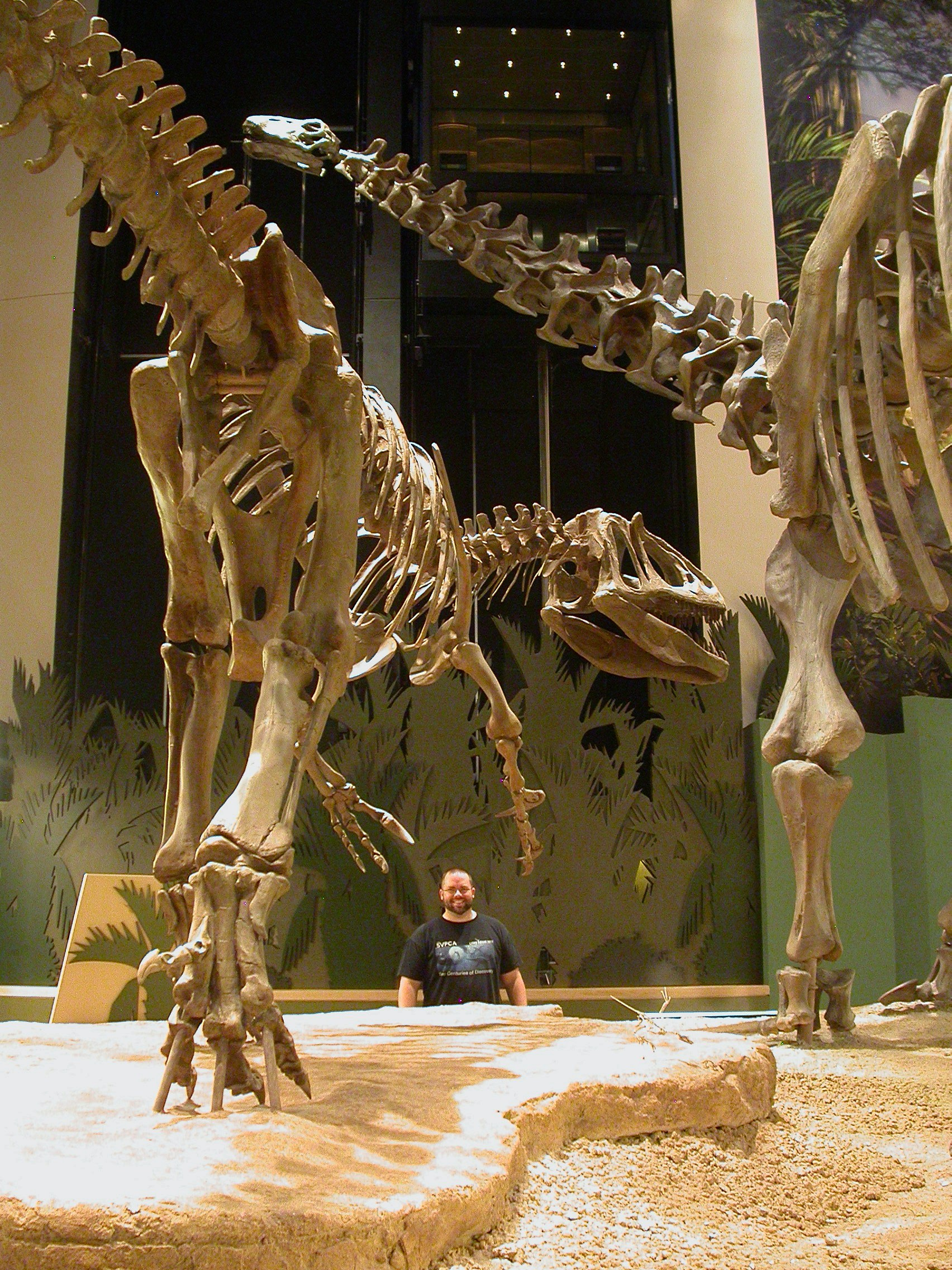 Mounted skeletons of Saurophaganax maximus and Apatosaurus sp. in the Oklahoma Museum of Natural History. The human in the background for scale is the american paleontologist Matt Wedel.